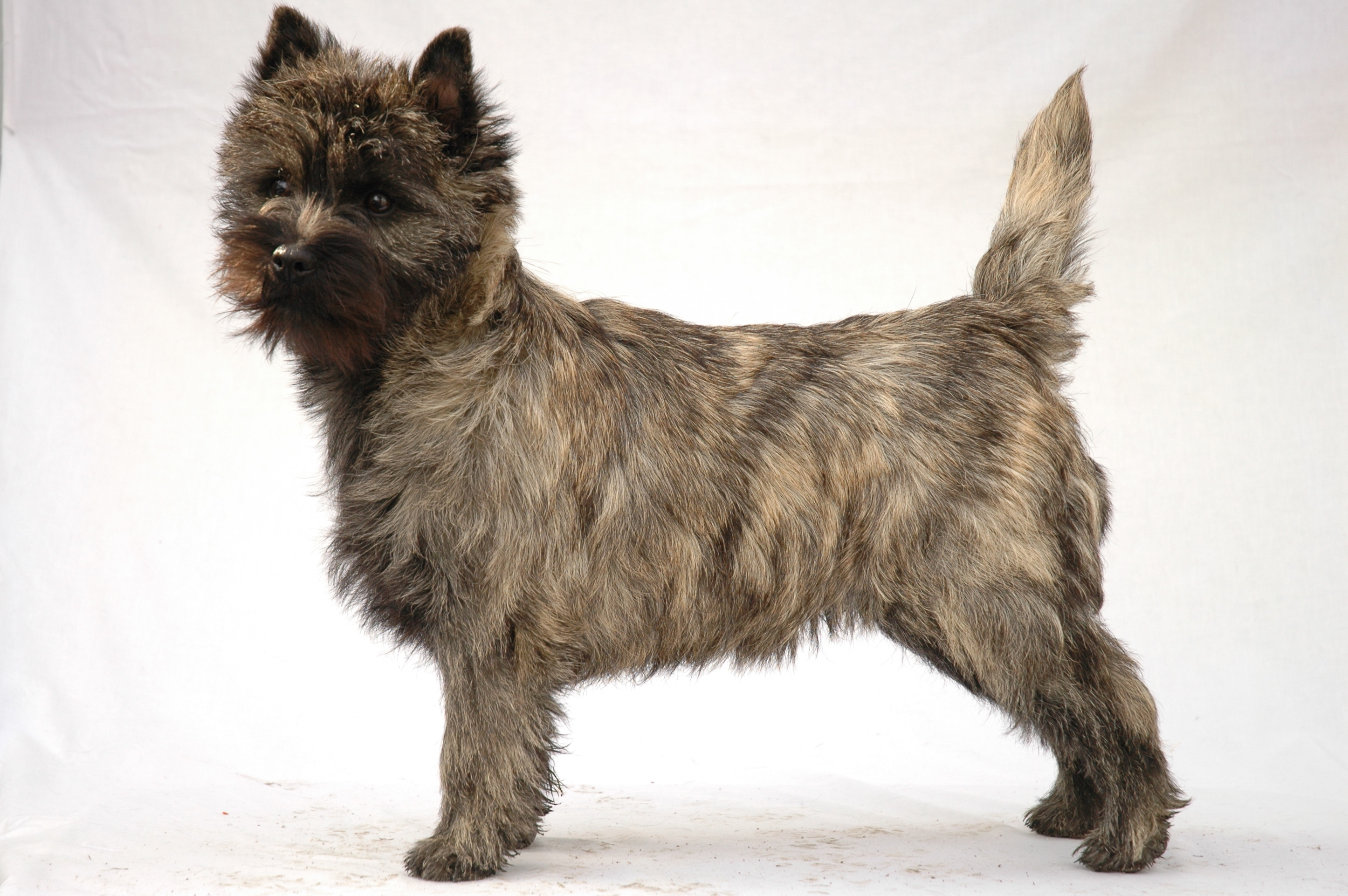 A stacked up Cairn Terrier